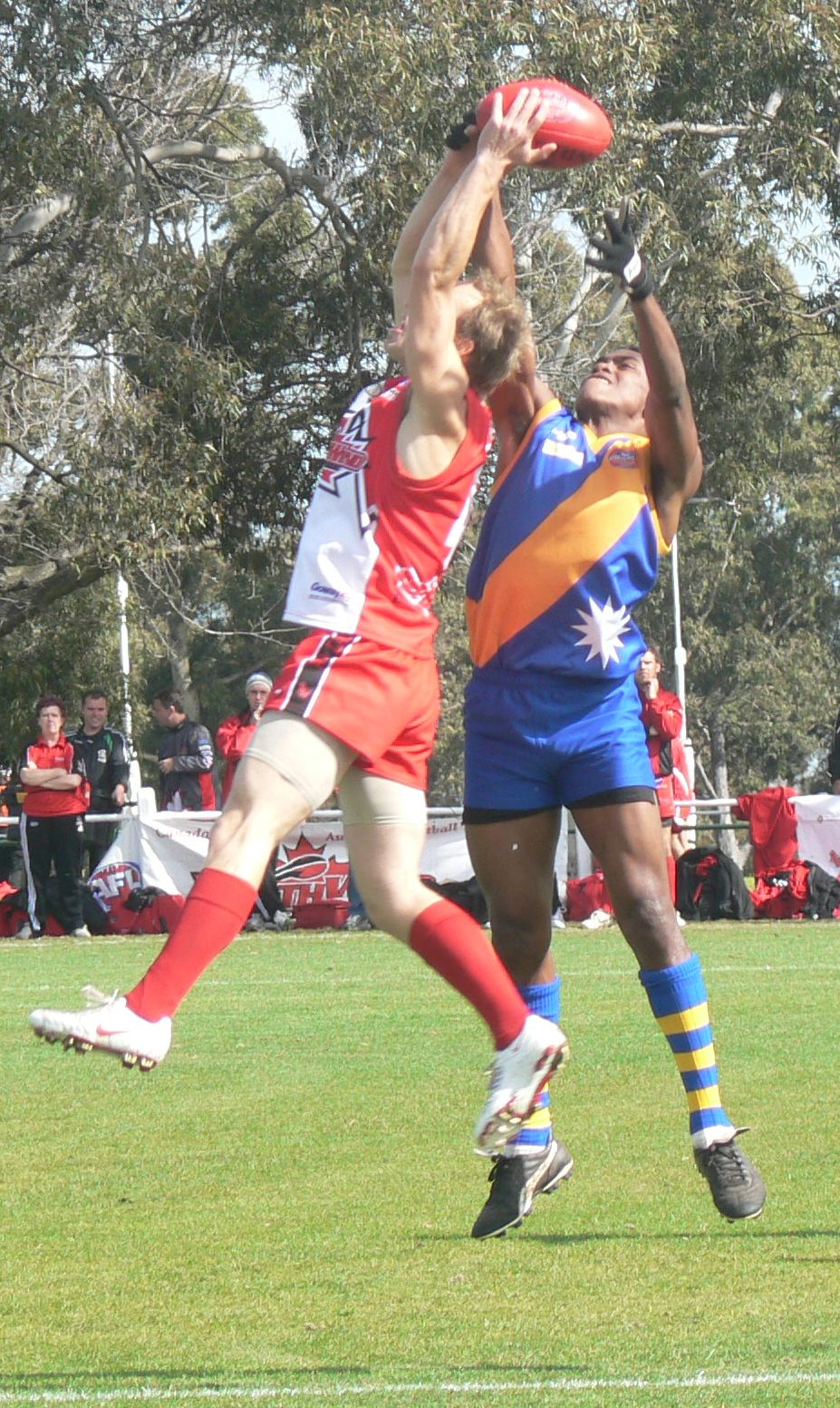 Marking contest between Canada and Nauru during the 2008 Australian Football International Cup